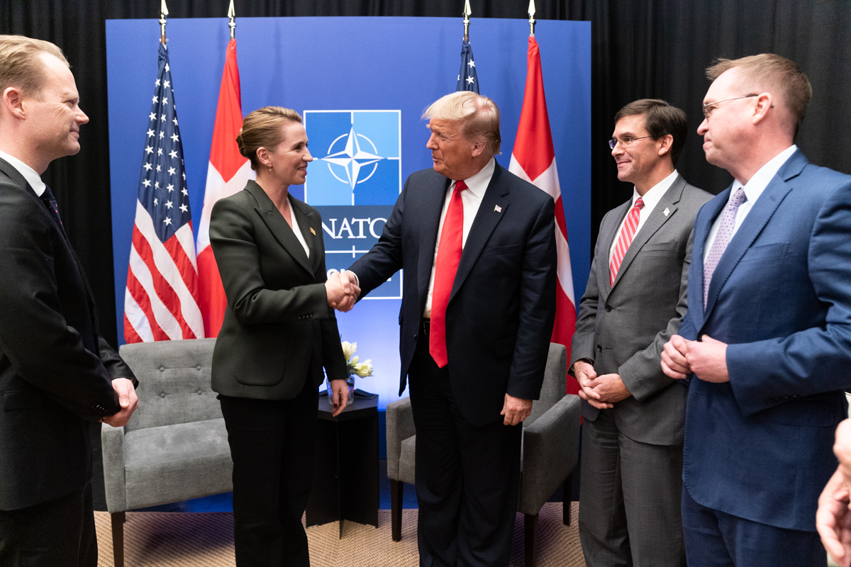 President Donald J. Trump participates in a pull-aside meeting with the Prime Minister of the Kingdom of Denmark Mette Frederiksen during the North Atlantic Treaty Organization (NATO) 70th anniversary meeting Wednesday, Dec. 4, 2019, in Watford, Hertfordshire outside London. (Official White House Photo by Shealah Craighead)